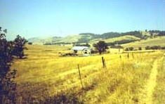 The Frawley Ranch, a National Historic Landmark in Lawrence County, South Dakota, United States.